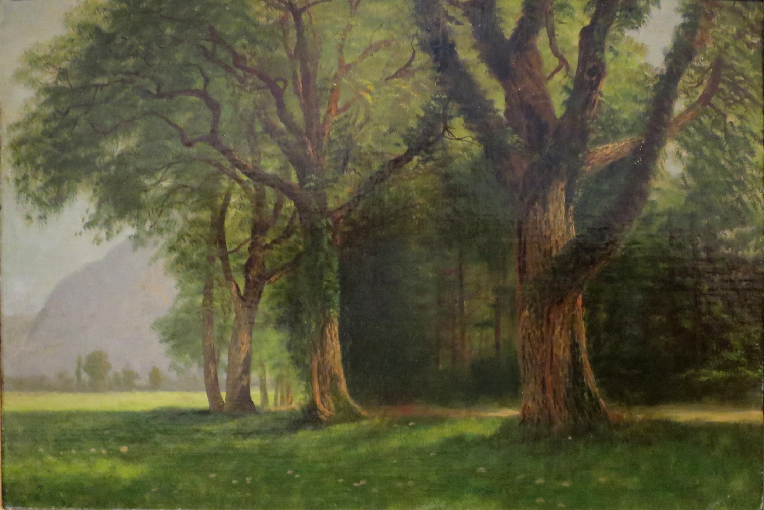 In the Valley of the Yosemite